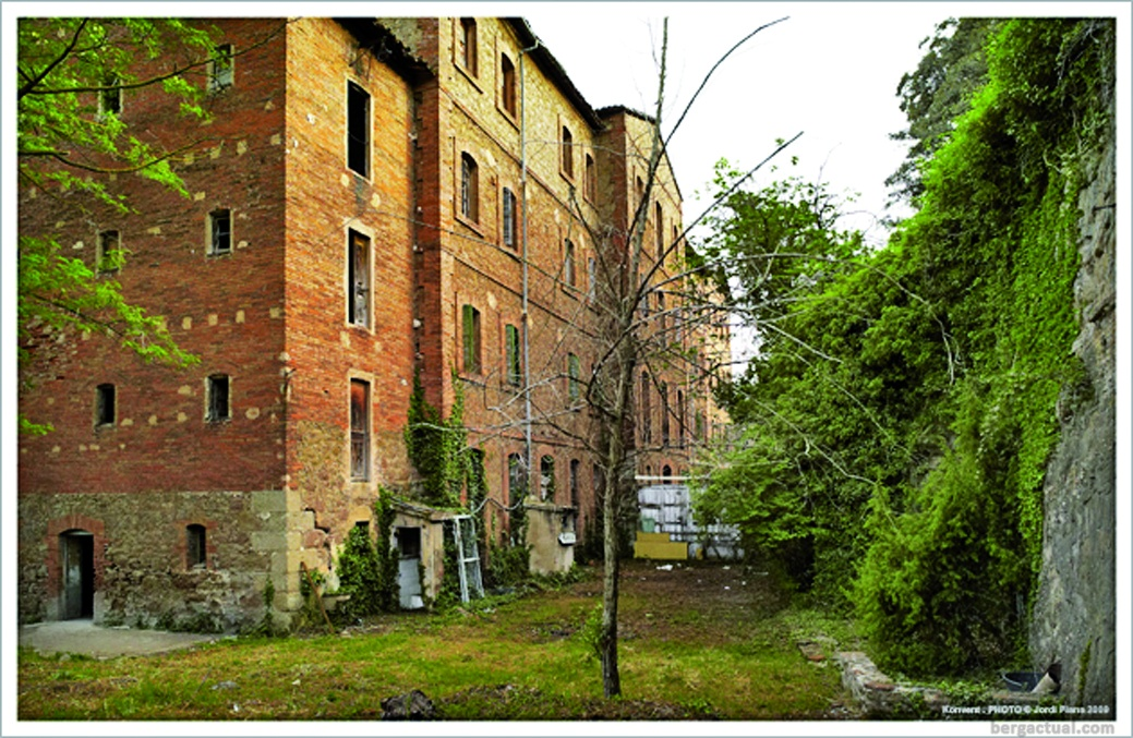 garden konventpuntzero convent cal rosal